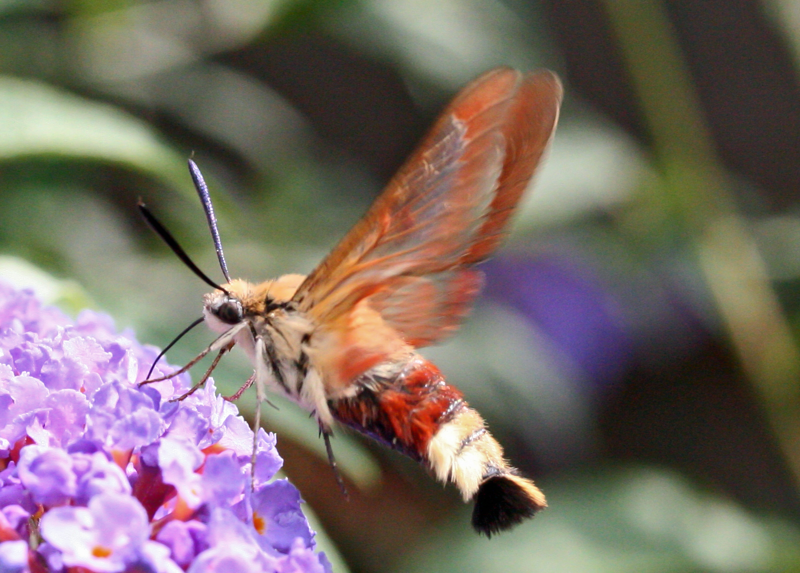 Hemaris fuciformis 29 July 2006 IJmuiden, the Netherlands